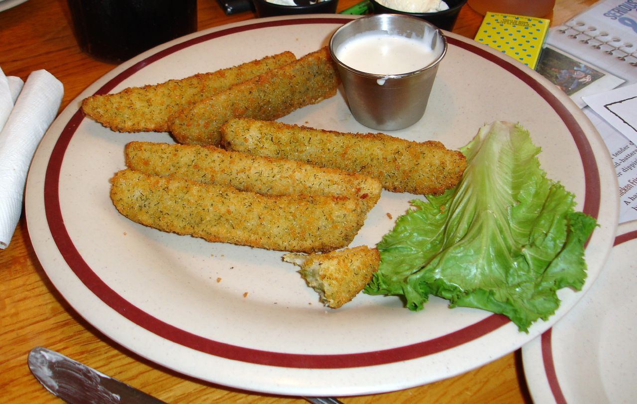 Yummy! Fried pickles, Dixie Cafe style. Arkansas